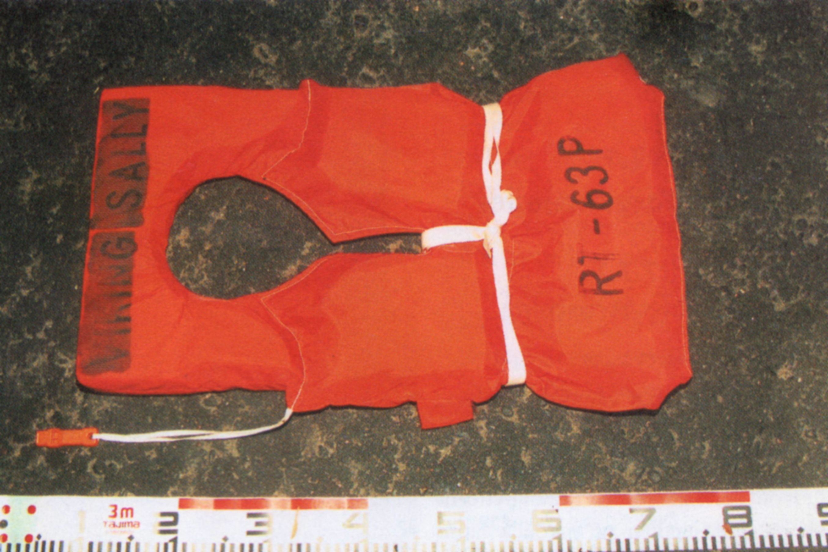 Lifejacket from MS Estonia.